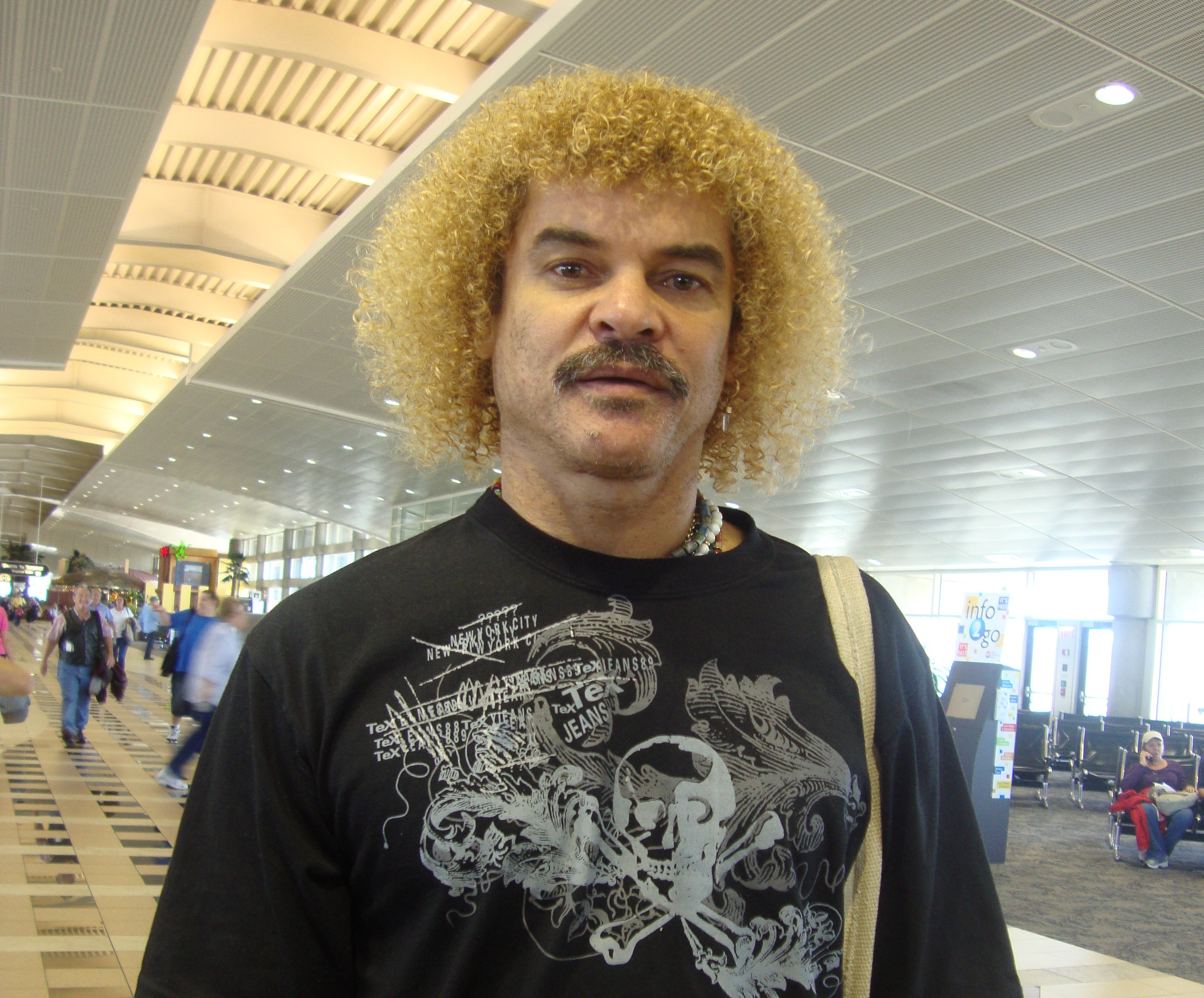 Picture depicting Carlos Valderrama, former Colombian soccer player. (Tampa, 2010)